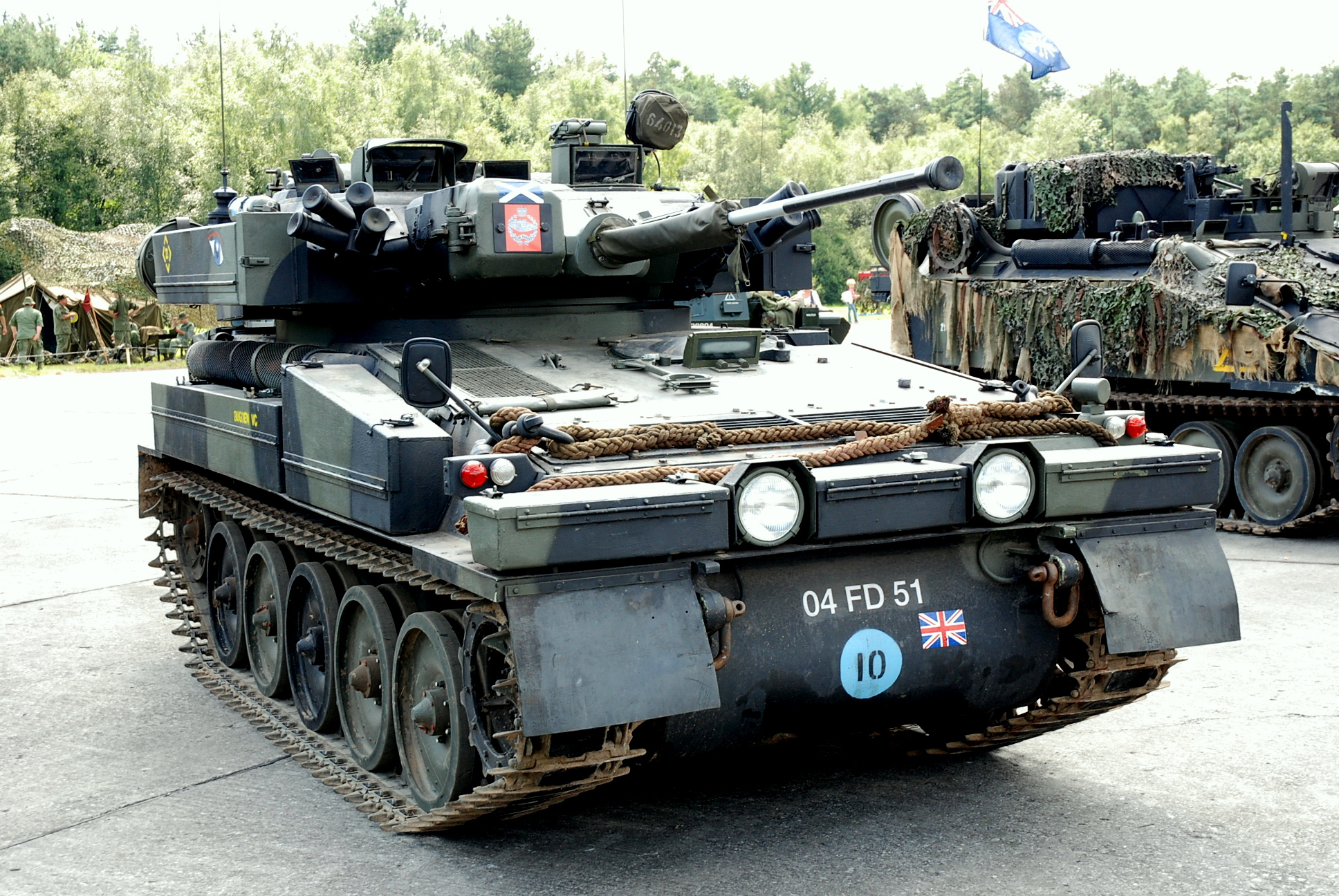 This is Sabre tank, a tracked armored reconnaissance vehicle.